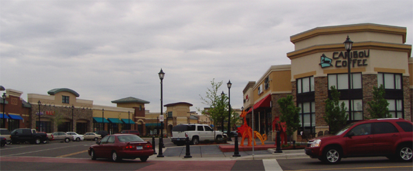 New shopping district in St Anthony where Apache Plaza stood, in 2006